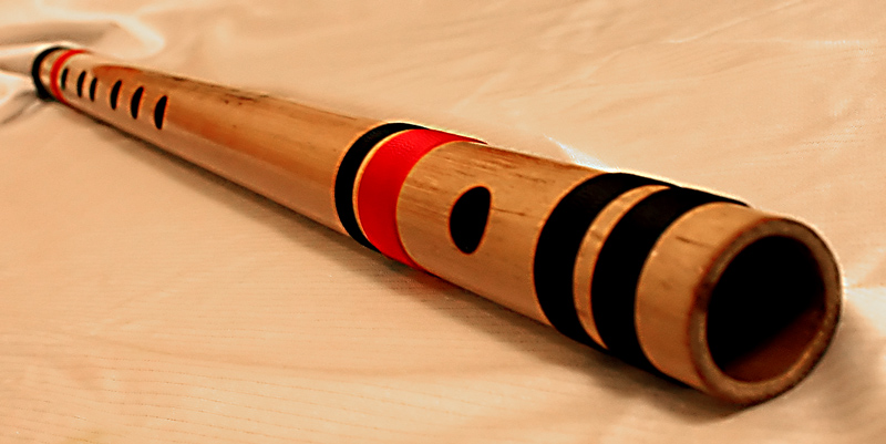 Bansuri, a bamboo flute popular in India. The picture shows a 23 inch long flute often used in concerts